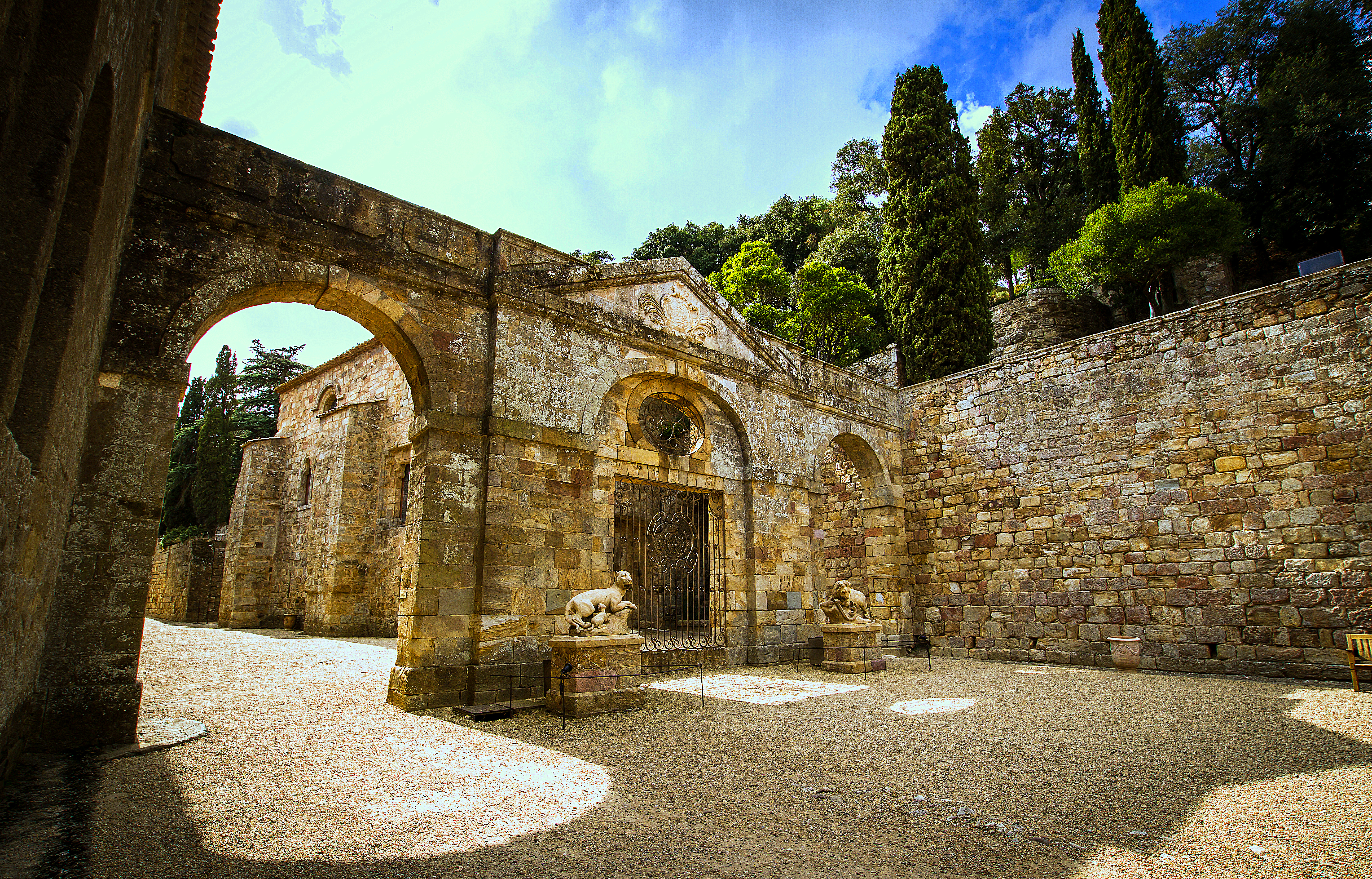 La cour d'honneur